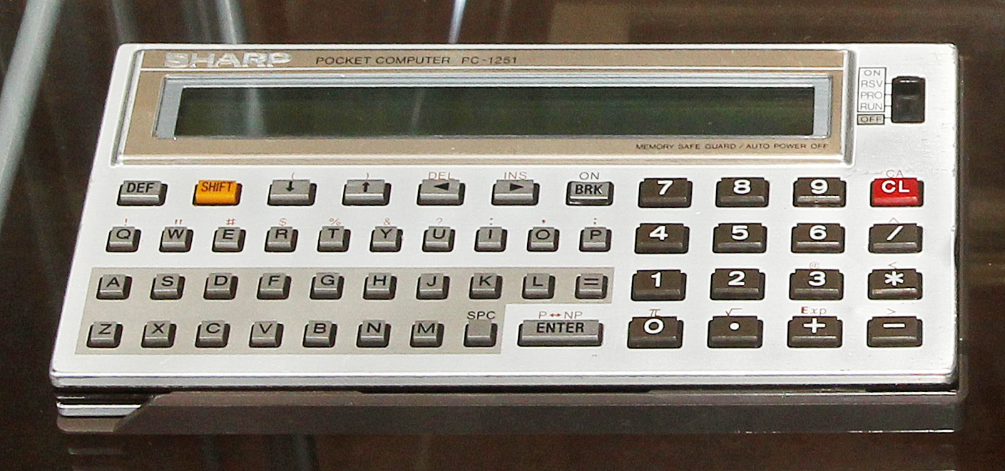 Sharp PC-1251 pocket computer in Helsinki Computer and game console museum. (This computer was also sold as the TRS-80 Pocket Computer PC-3).